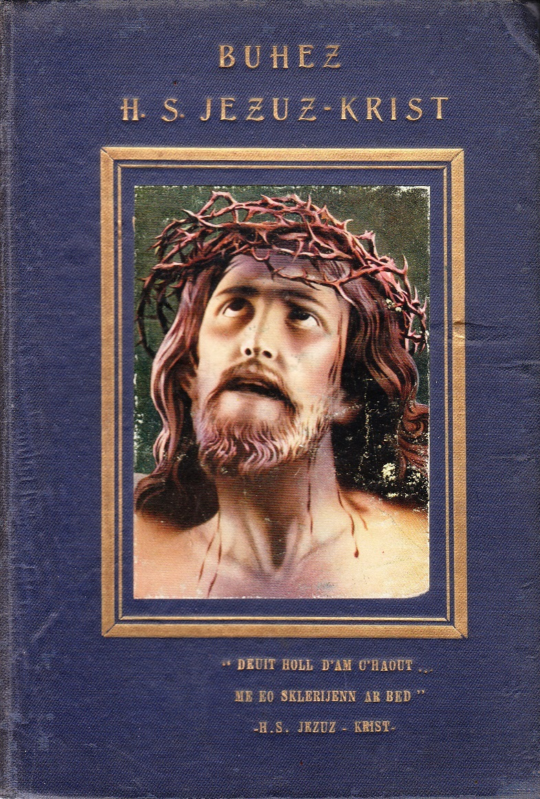 Cover of Buhez H. S. Jezuz-Krist (Jesus Christ's Life in Breton language, year 1930